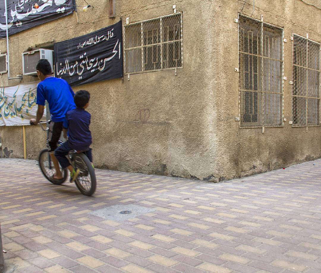 a zarnoq (Alley) in Qatif.